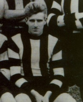 Photograph of Charlie Milburn from 1923-1927